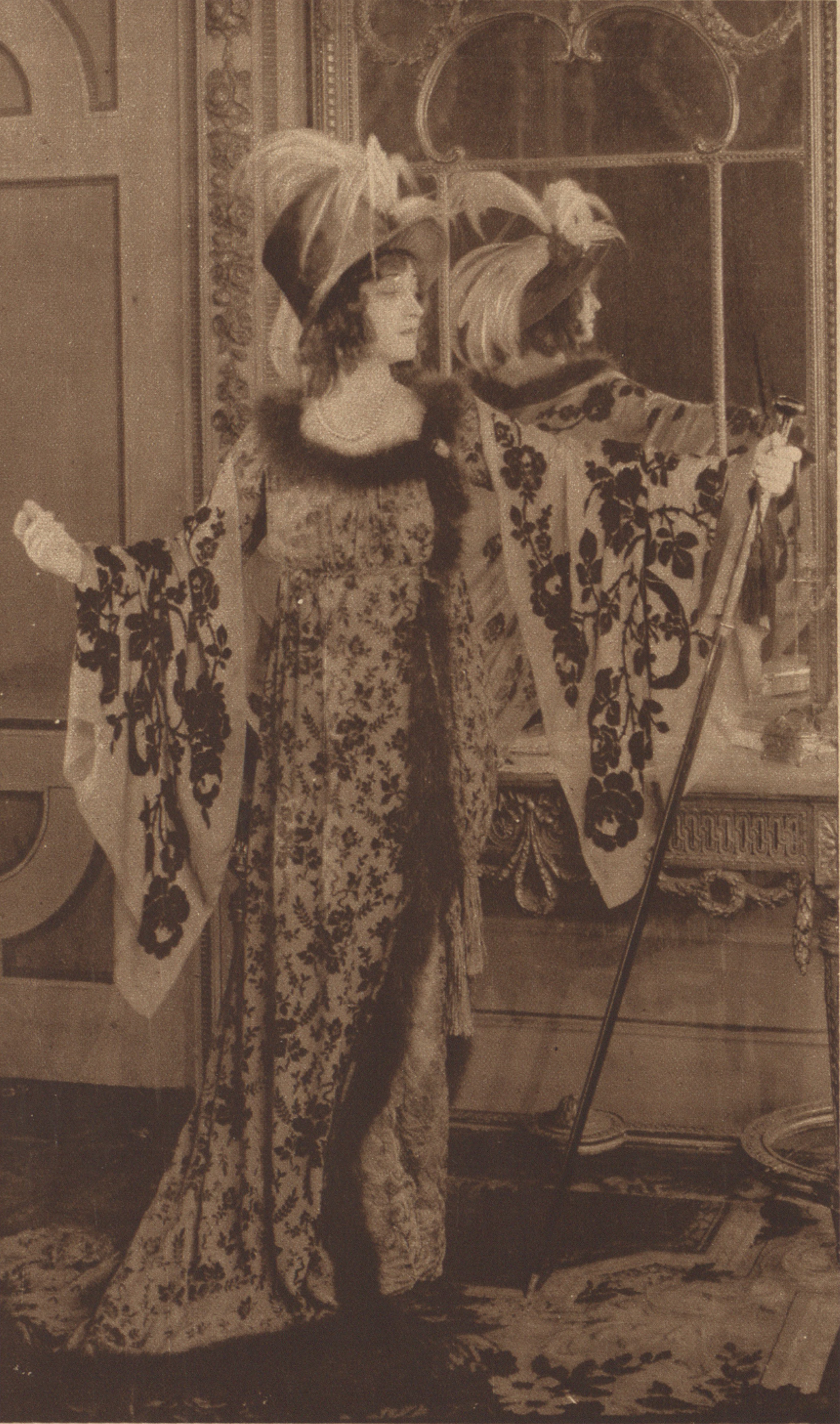 Actress Pauline Frederick in La Tosca (1918)